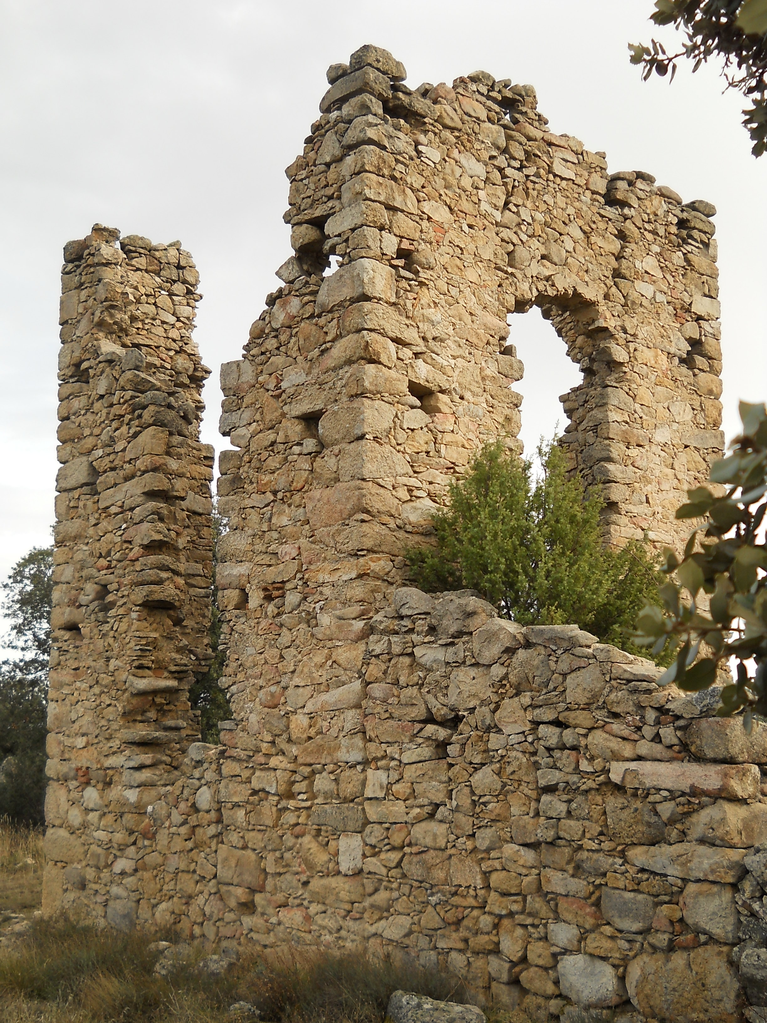 Tower near the top of El Estepar, Sierra de Hoyo de Manzanares, Madrid, Spain